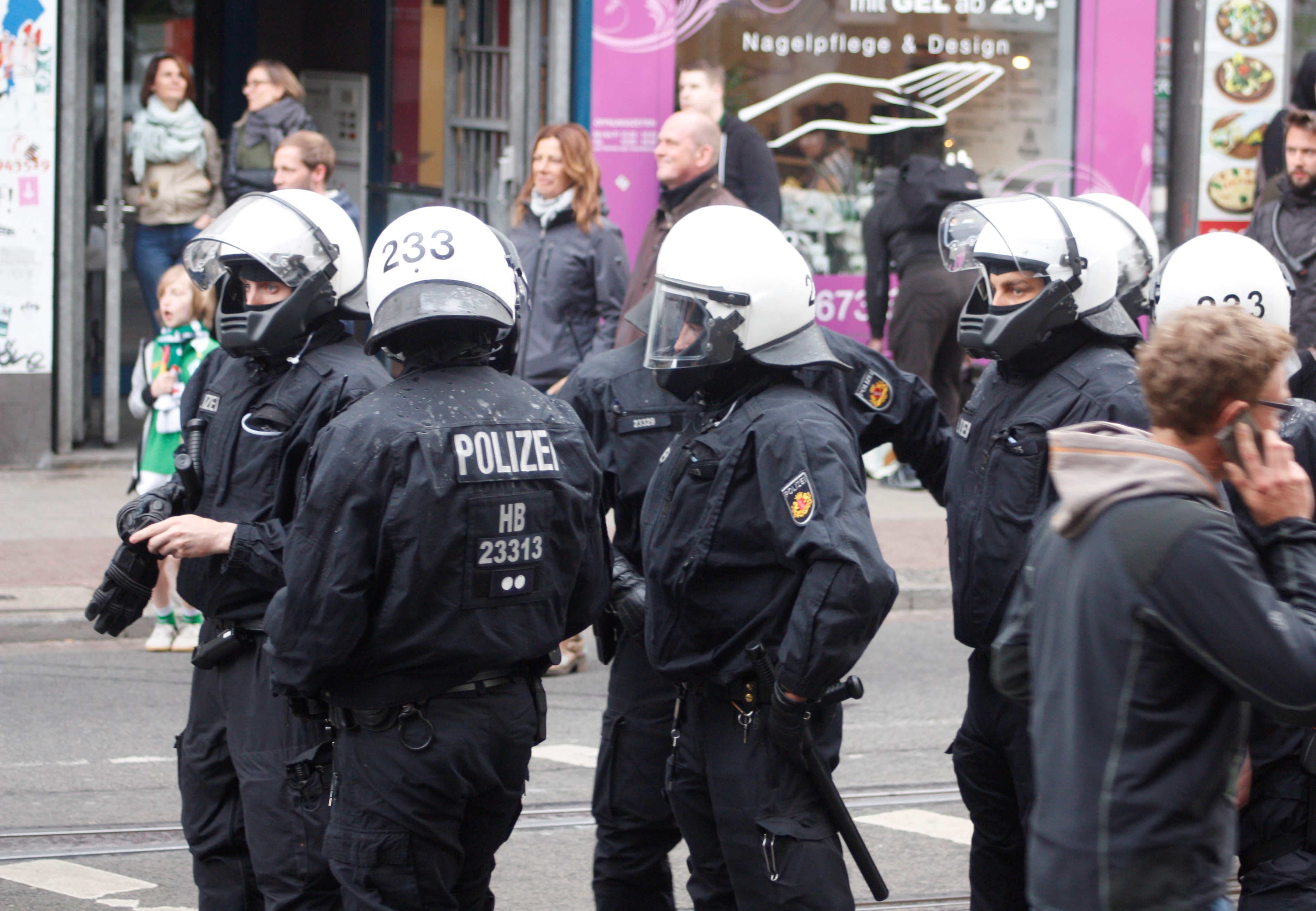 Officers of Police Bremen interacting after a Werder Bremen match, 2015